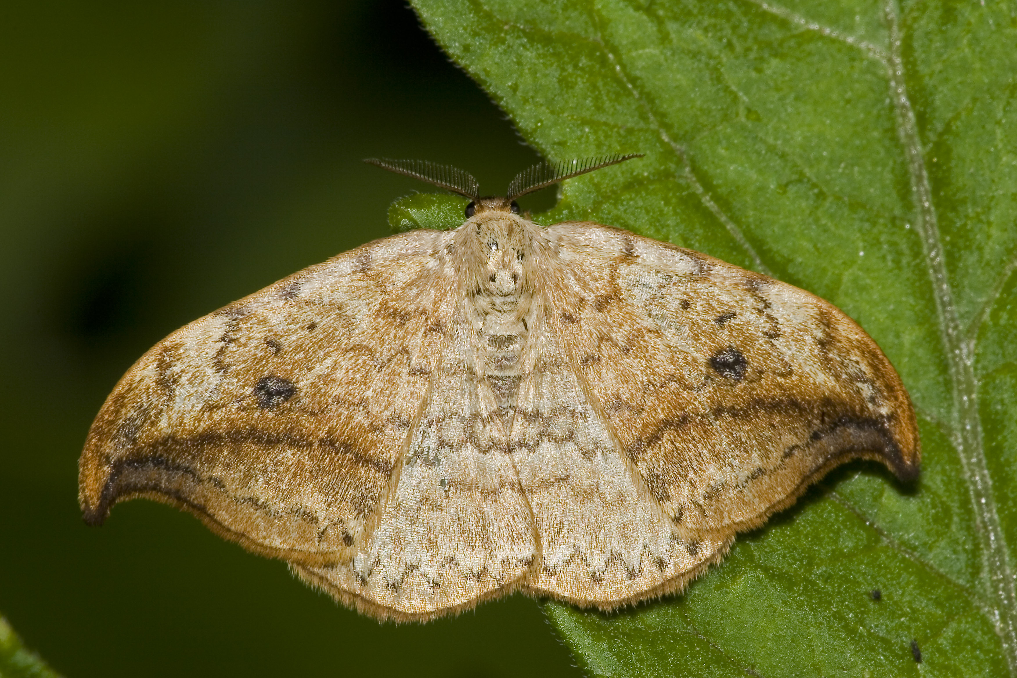 Please report references to .